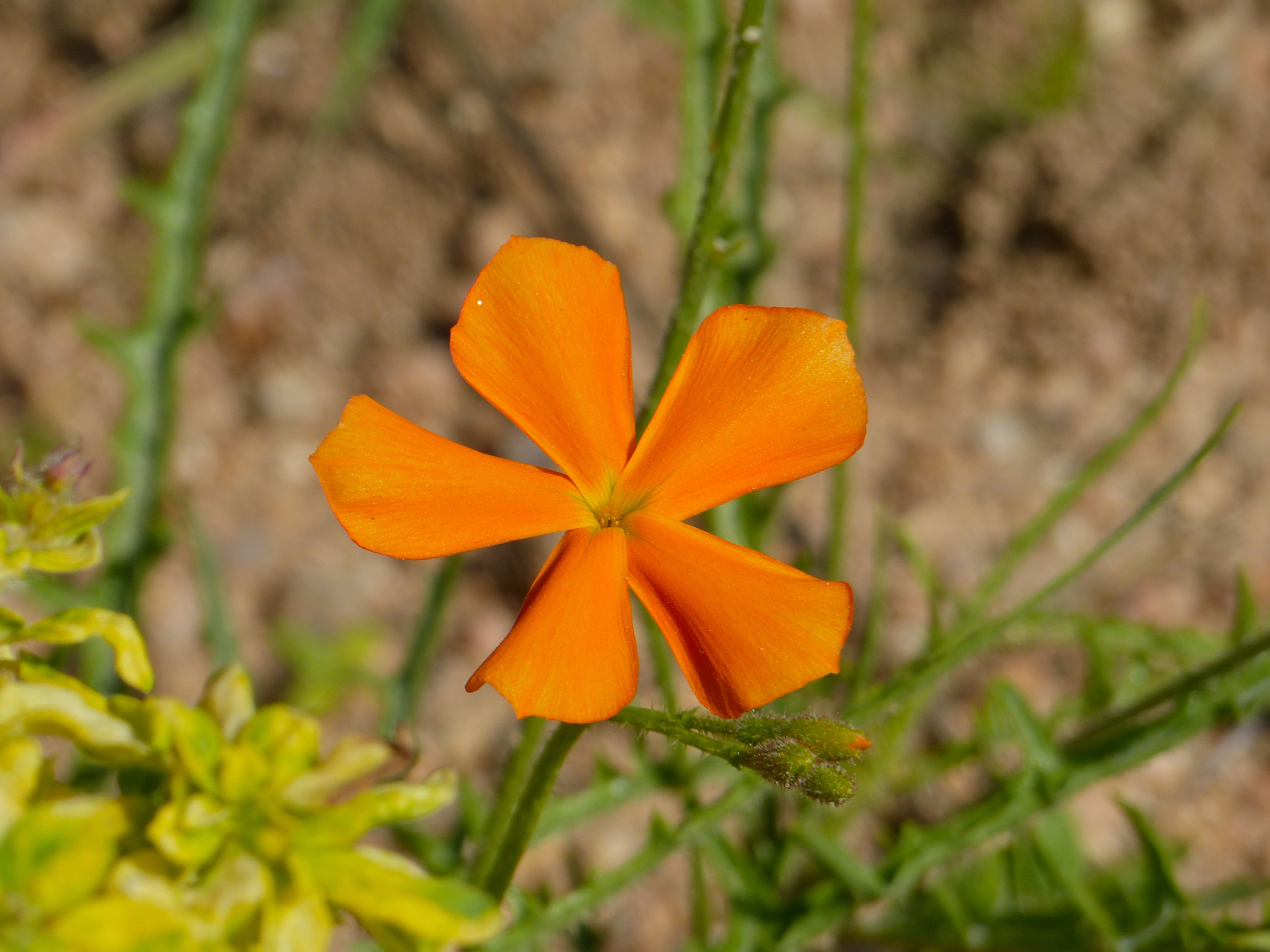 S30 Road, North of Lower Sabie, Kruger NP, SOUTH AFRICA